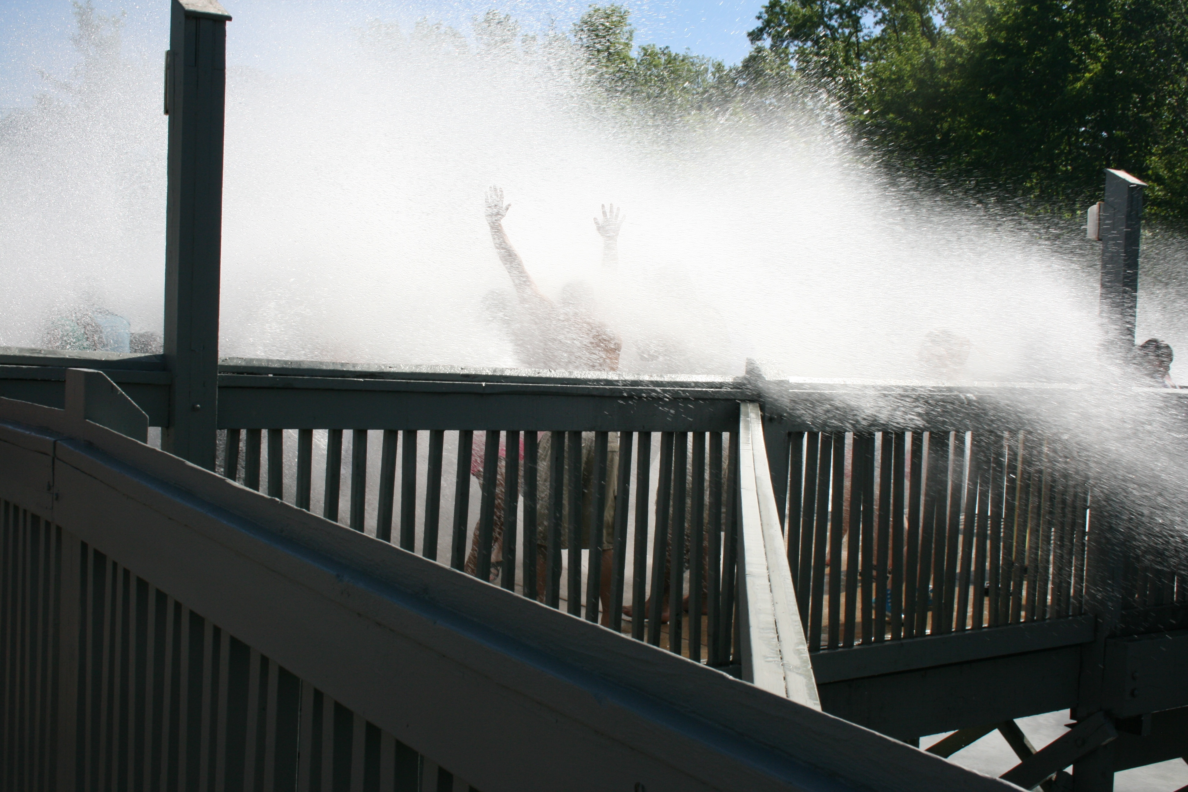 The Soak Zone area at the Timberwolf Falls water ride at Canada's Wonderland. This picture shows the wave hitting and soaking spectators above the main drop after a boat made it to the bottom and created the wave.